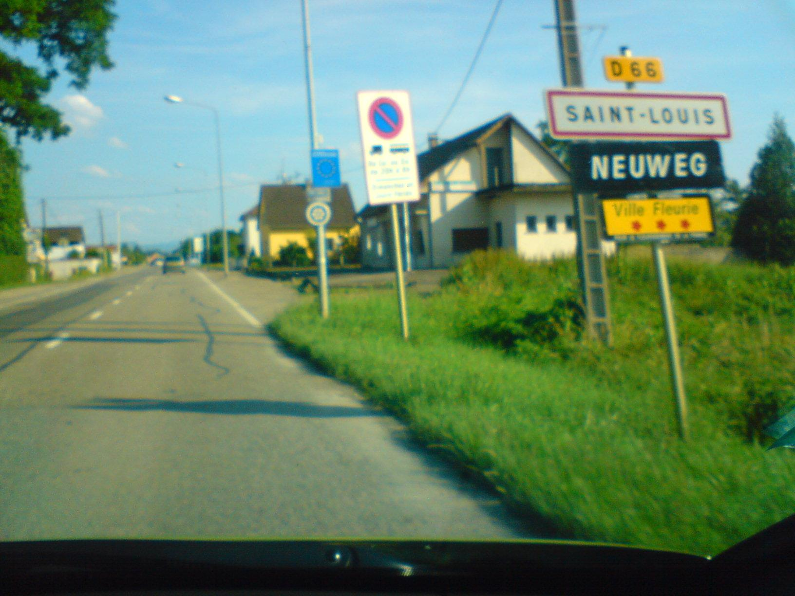 Saint-Louis in the road D66.